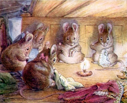 Mice sewing, illustration from The Tailor of Gloucester